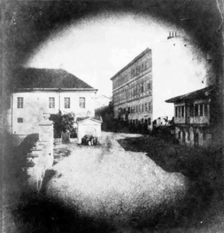 Kralja Petra Street, 1865 - the building of the first Belgrade Primary School, which included the first Reading Room in Belgrade (on the left) and the hotel "Kod Jelena", where the Ilirska kasina was located.